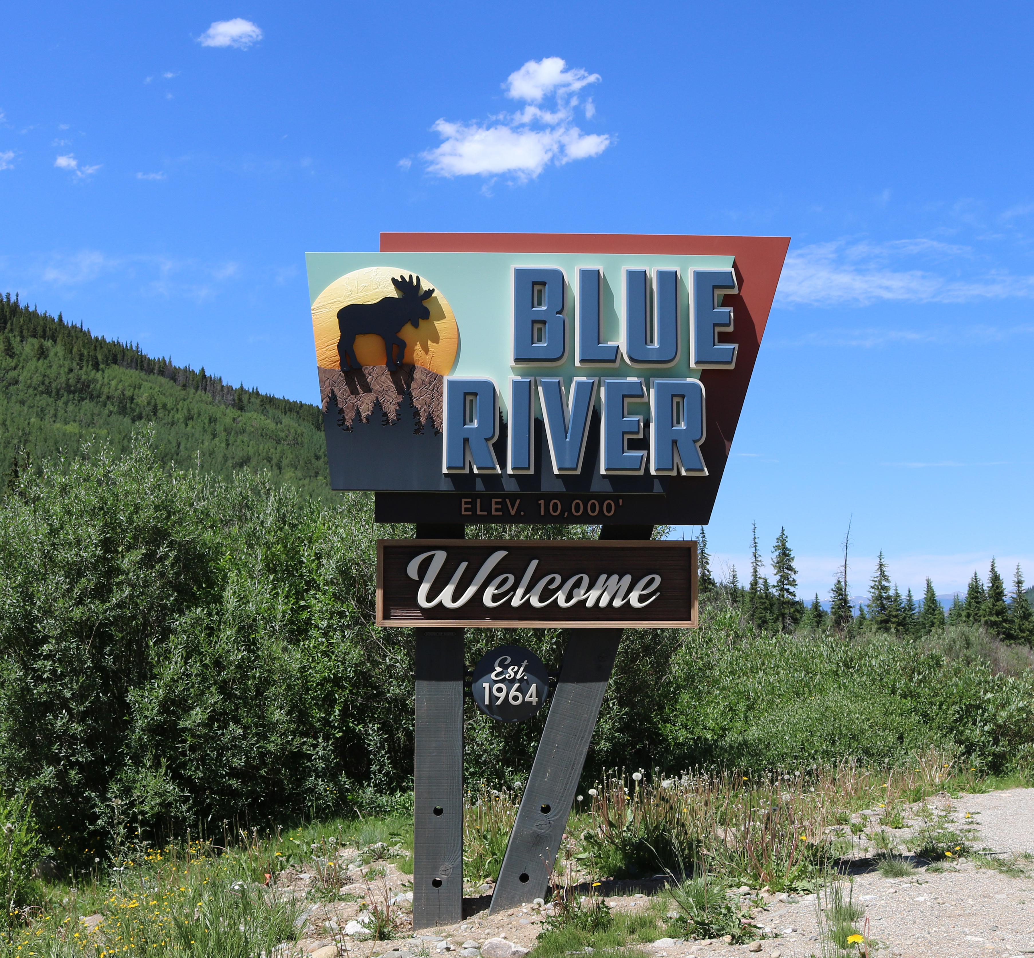 A welcome sign for the town of Blue River, Colorado. The sign is located along Colorado State Highway 9 at the southern entrance to the town.